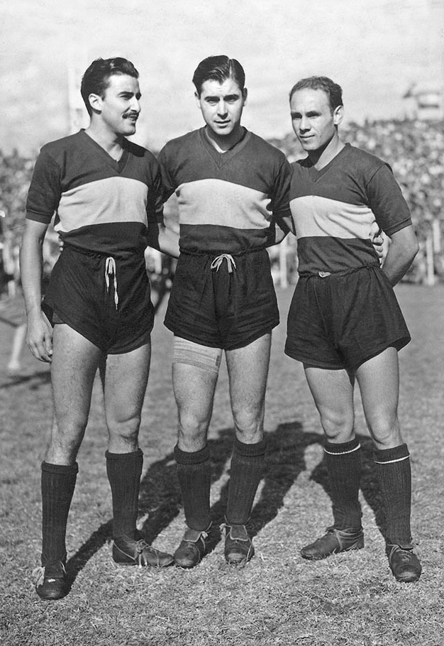 Carlos Sosa, Ernesto Lazzatti and Natalio Pescia, the trio that formed Boca Juniors' midfield line in the 1940s.